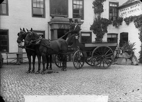 1 negative : glass, dry plate, b&w ; 12 x 16.5 cm.